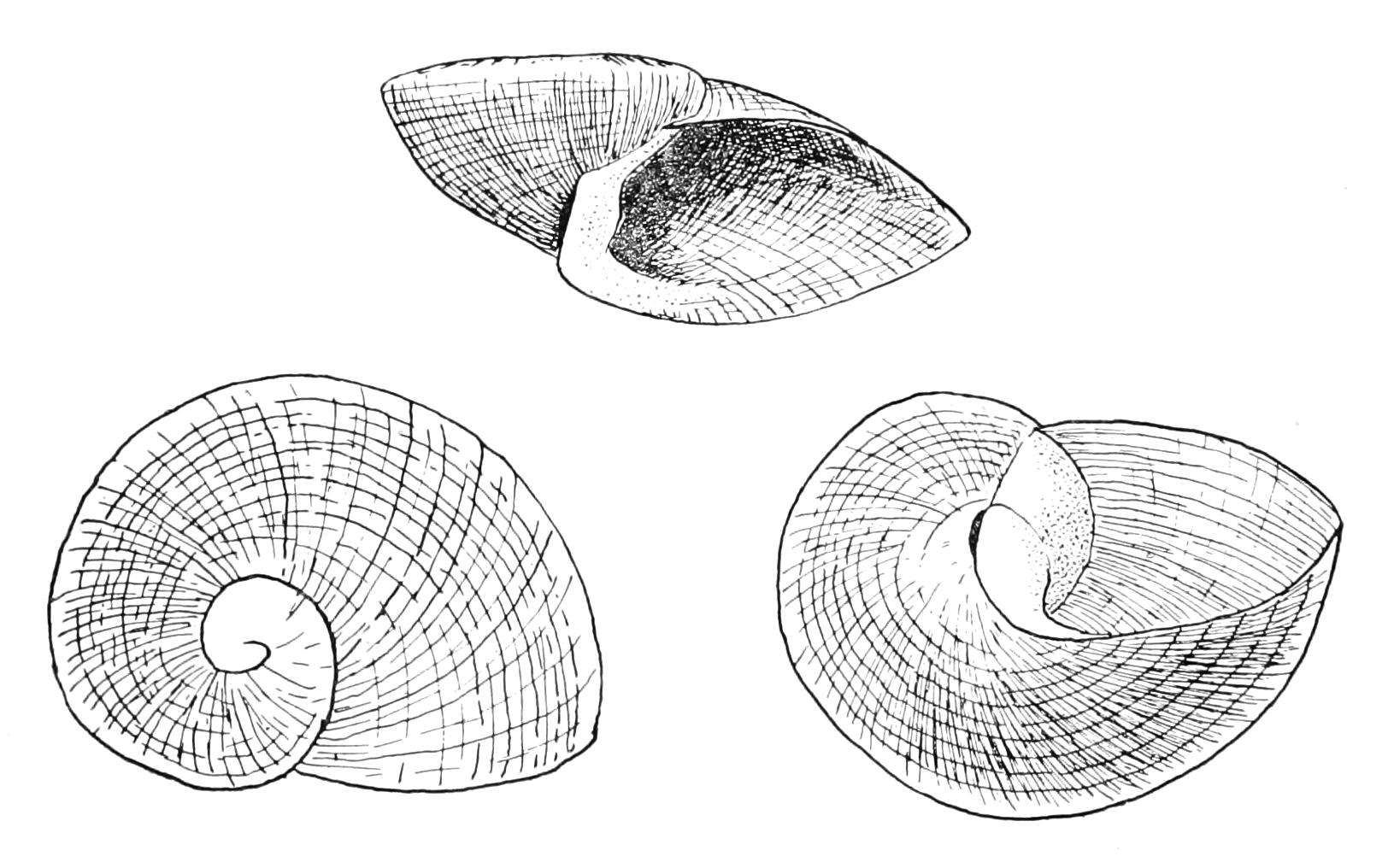 drawing of shells of Neoplanorbis tantillus